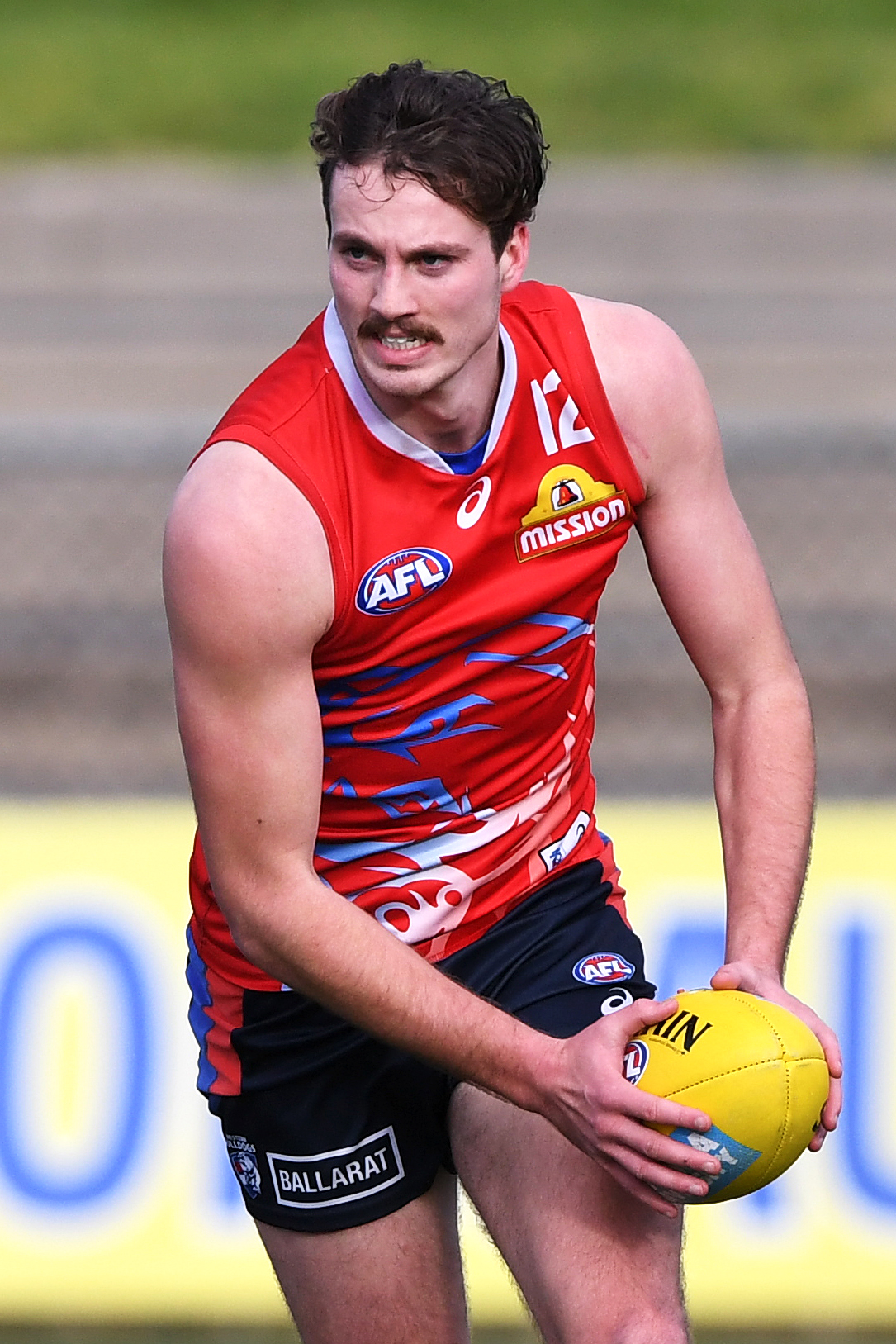 Zaine Cordy of the Western Bulldogs during Western Bulldogs training on 7 August 2018 at Whitten Oval in Melbourne, Victoria.